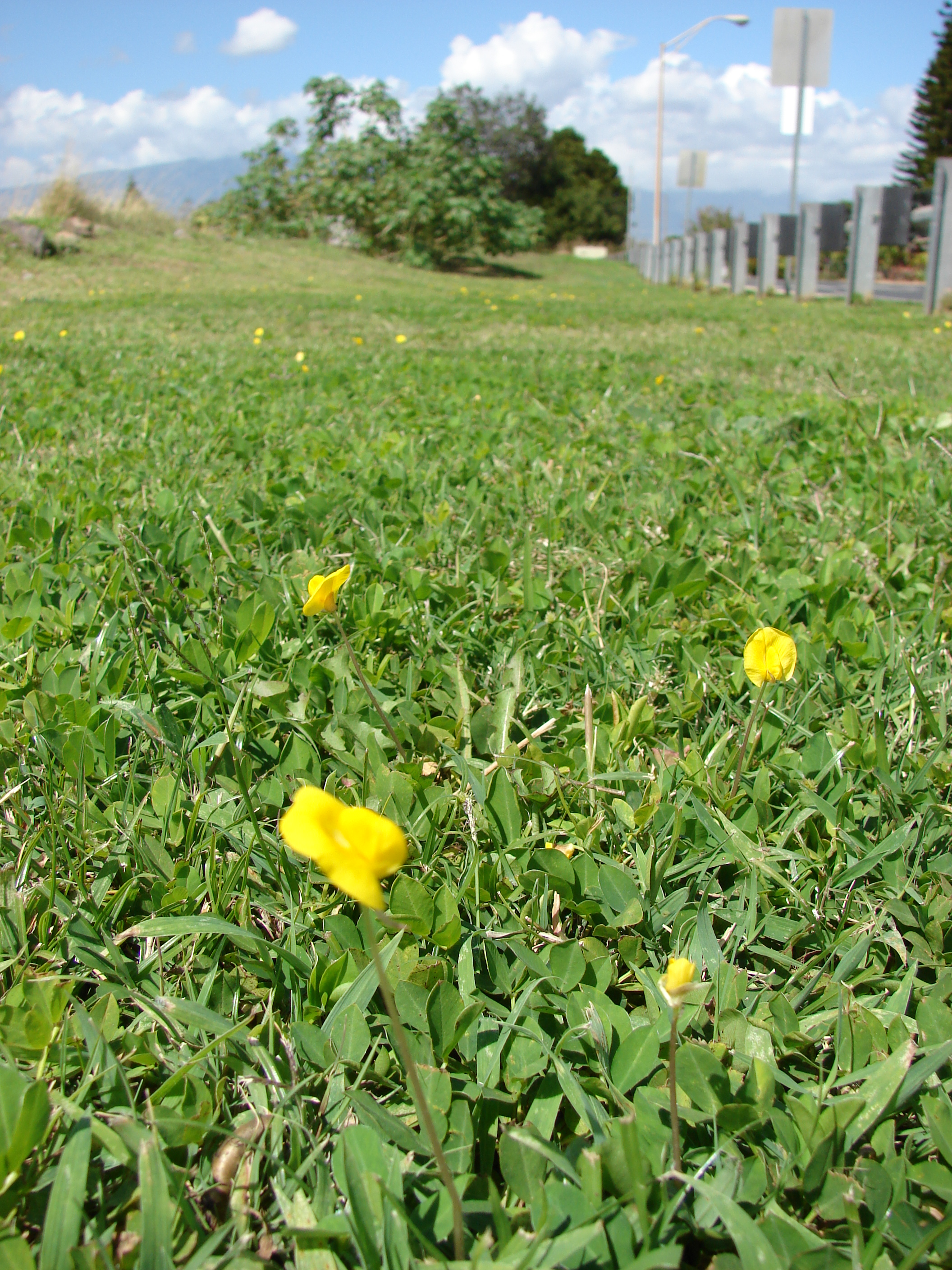 Arachis pintoi (flowering habit). Location: Maui, Pukalani